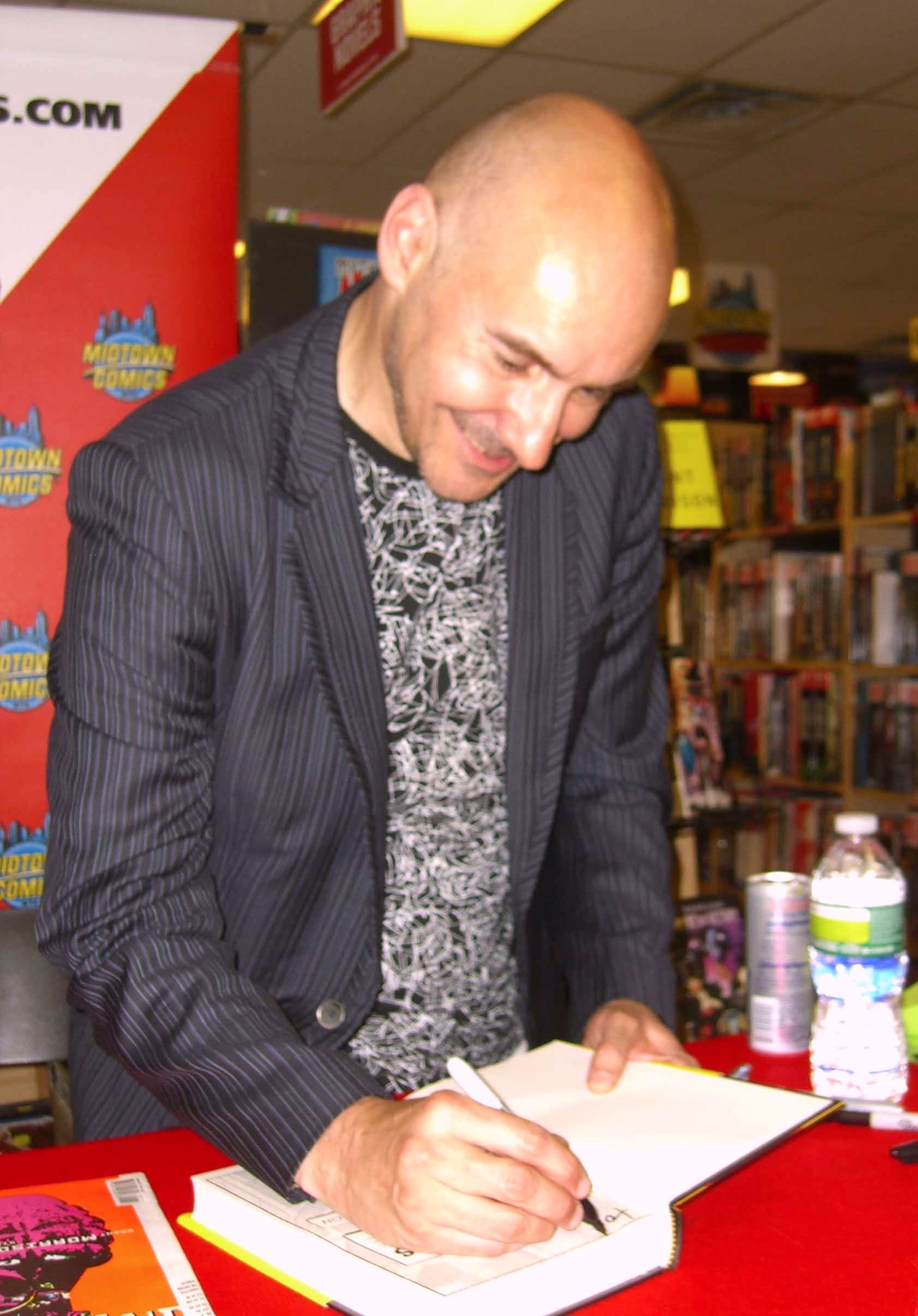 Writer Grant Morrison at a July 19, 2011 signing at Midtown Comics Grand Central in Manhattan for his newly-published non-fiction book, Supergods. Photographed by Luigi Novi. This photo is not in the public domain. It may, however, be used, modified and published for any purpose, free of charge, only if the photographer is properly credited, either by linking the photograph to this page, or with an easily visible credit to the photographer placed near the photo in each instance in which it is used. (See licensing information below.) Publication of this photo without this proper attribution constitutes copyright infringement. If you have any questions, you can contact me on my Wikipedia Talk Page.